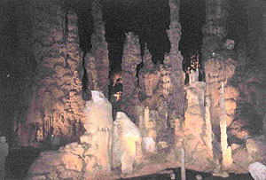 Cathedral Caverns in Grant, Alabama